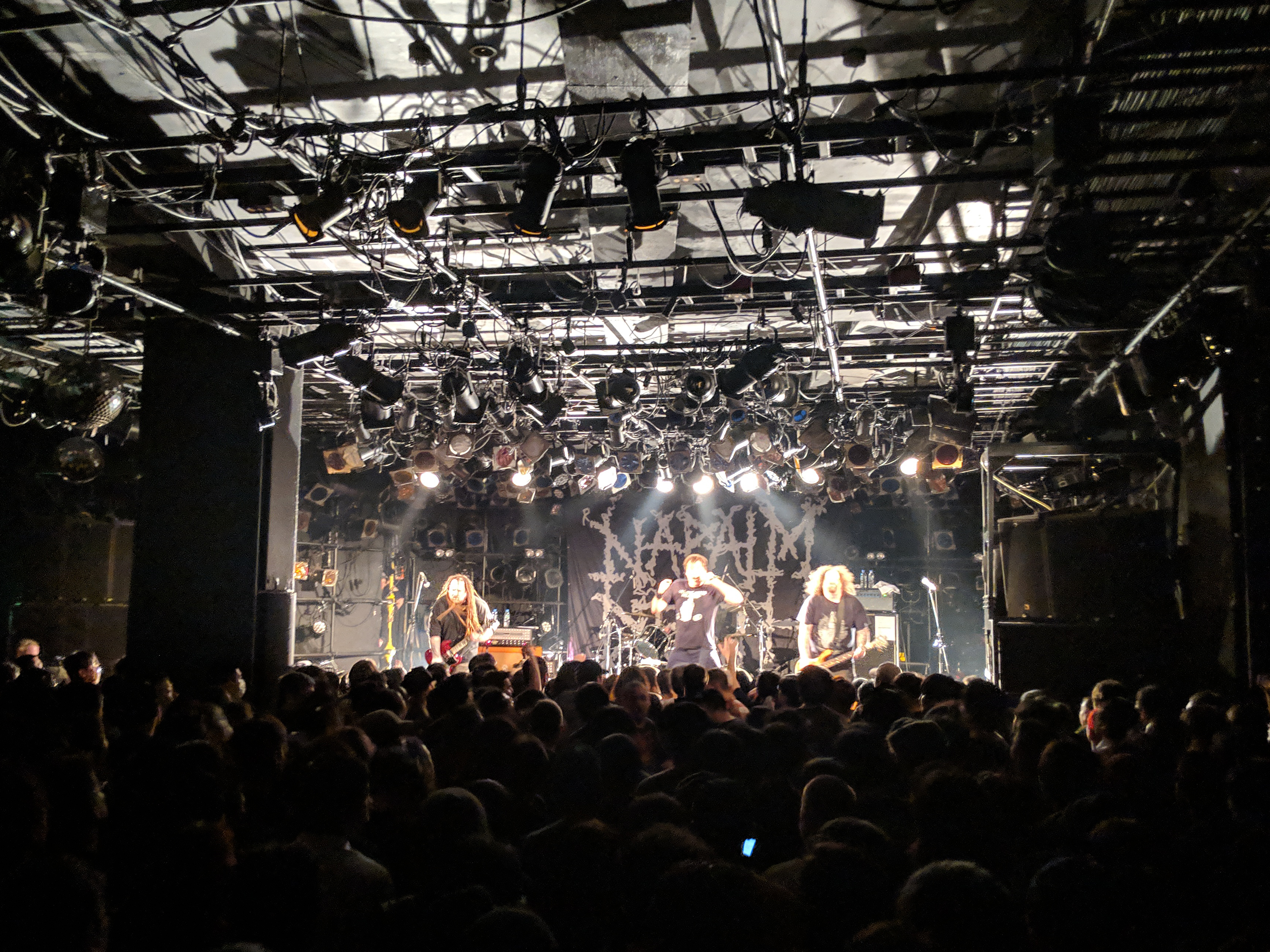 British grindcore band Napalm Death performing live on 6 March 2019 at the Shibuya club Quattro in Tokyo, Japan